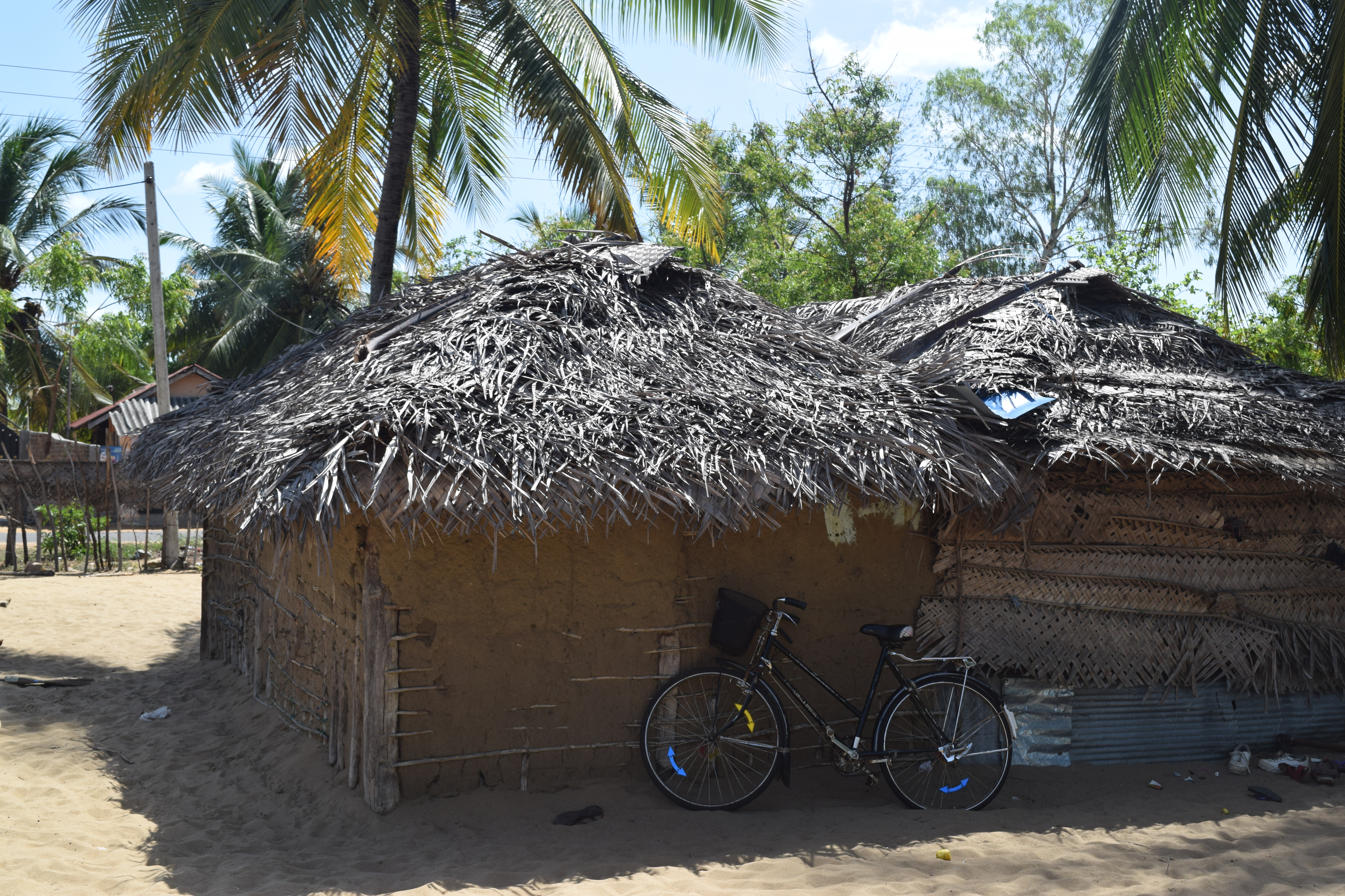 ஓலையால் வேயப்பட்ட வீடு